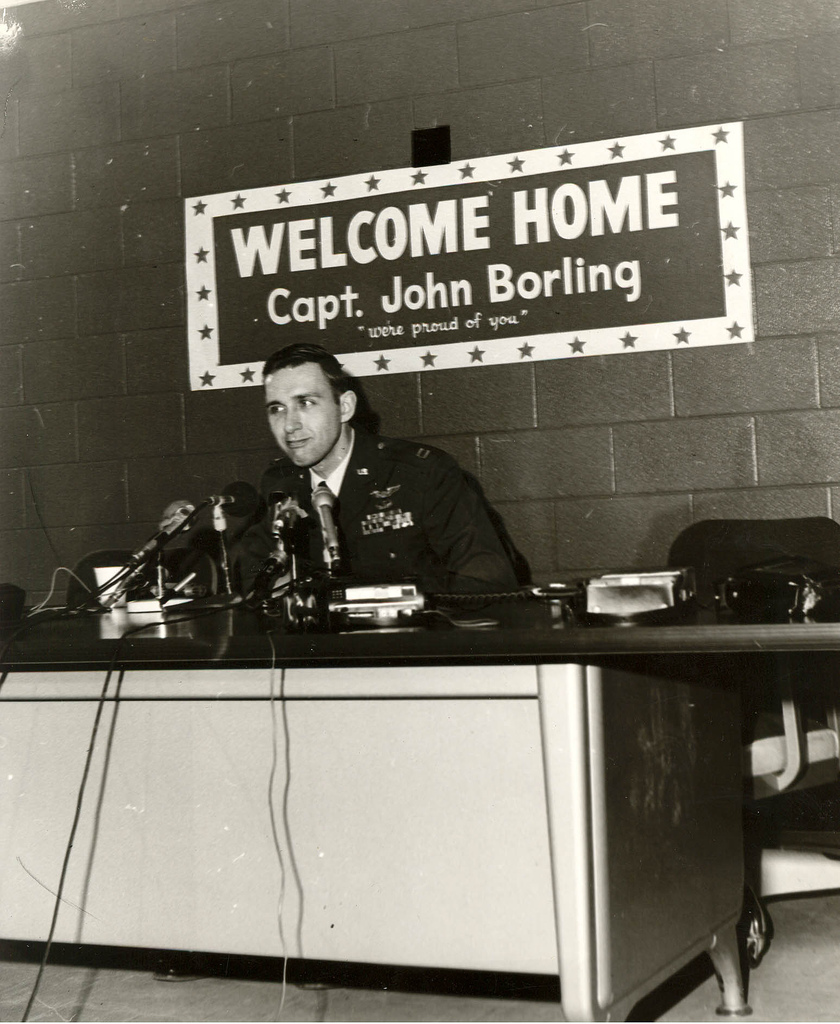 John Borling at a Welcome home event